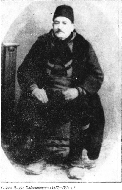 portrait of Dimko Hadjiivanov